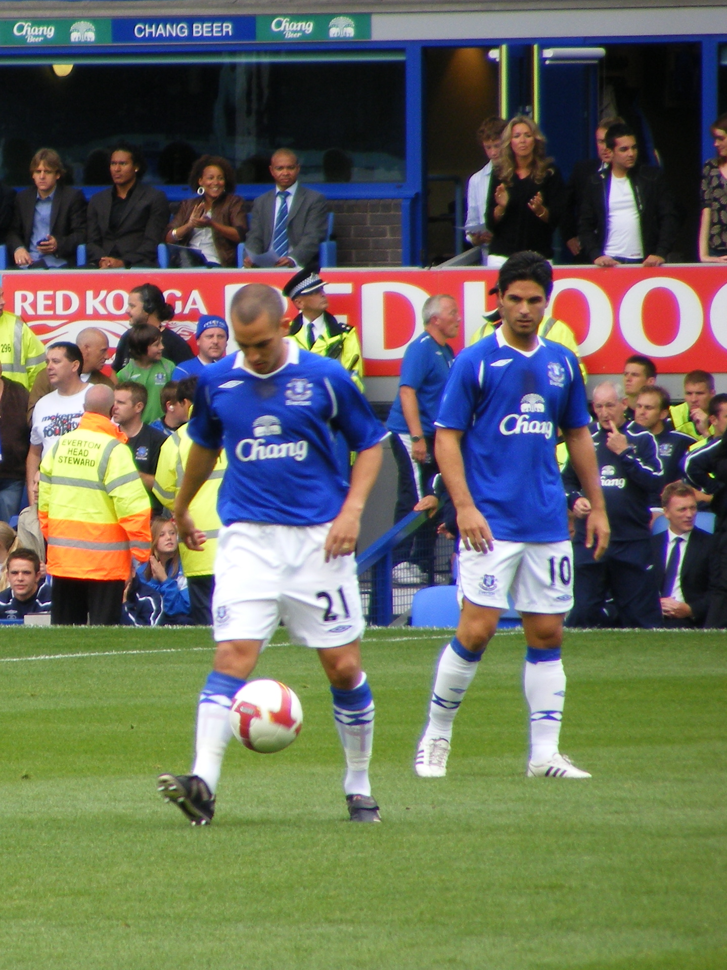 Leon Osman & Mikel Arteta.